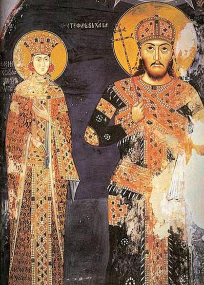 Serbian tzar Stefan Uroš IV Dušan of Serbia with his wife Jelena, middle of XIV century, monastery Lesnovo, Republic of Macedonia